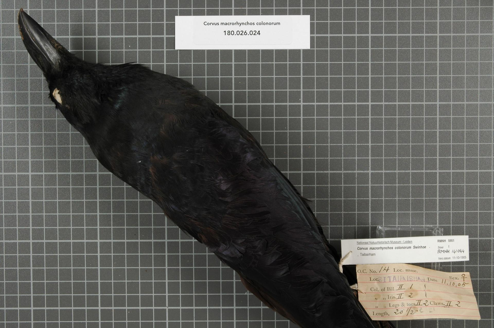 Corvus macrorhynchos colonorum Swinhoe, 1864